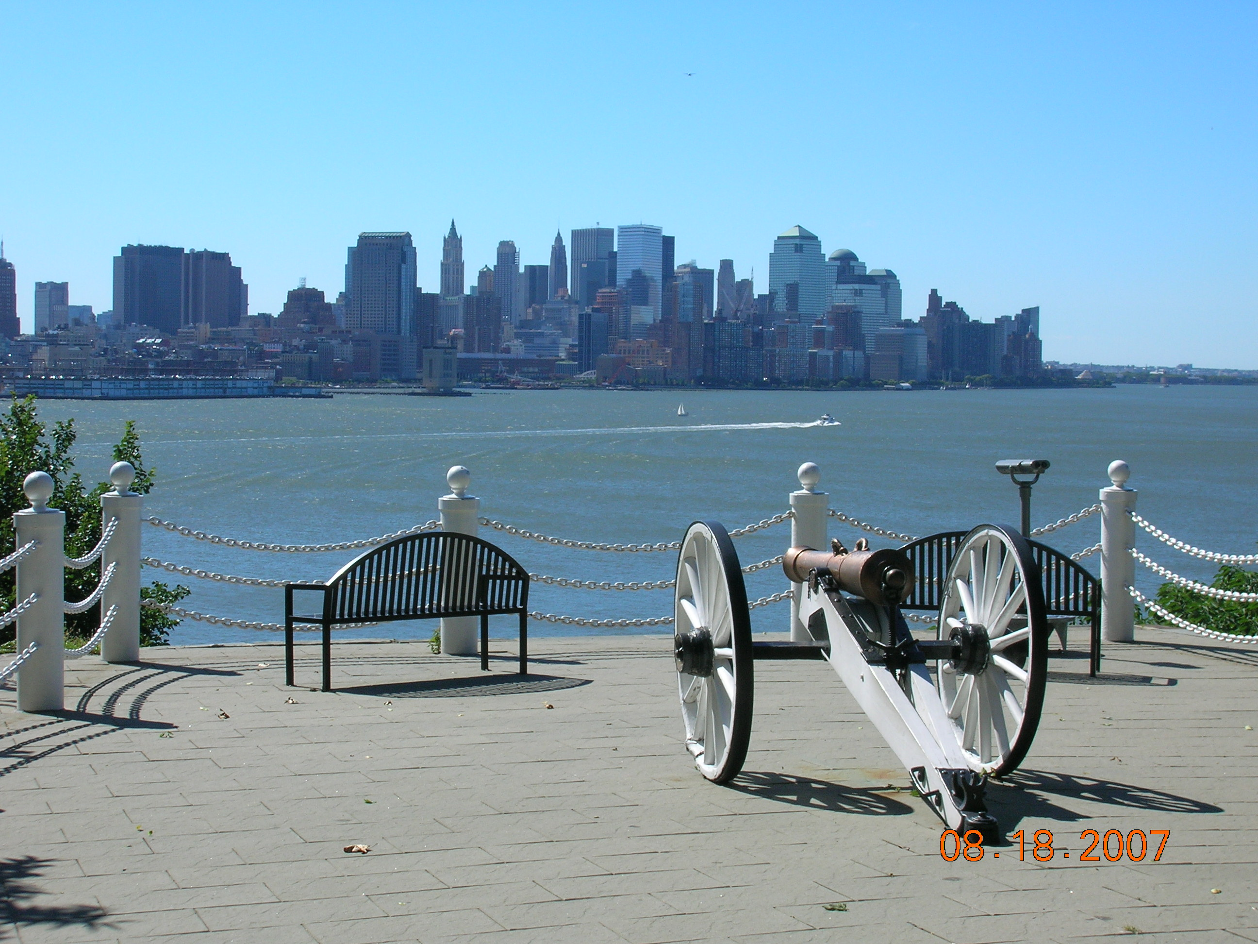 A view of lower Manhattan from Castle Point, located on the campus of Stevens Institute of Technology, Hoboken, New Jersey.